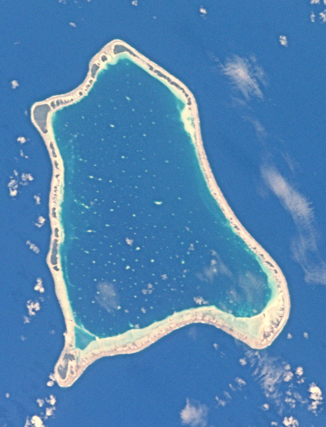 Atoll Nihiru (Tuamotu Archipelago, French Polynesia), from space.